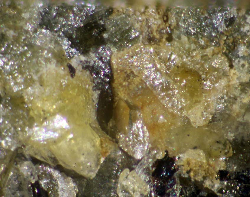 Yellow crystals of this rare tin silicate mineral from Red-a-Ven Mine, Okehampton, Devon, United Kingdom.